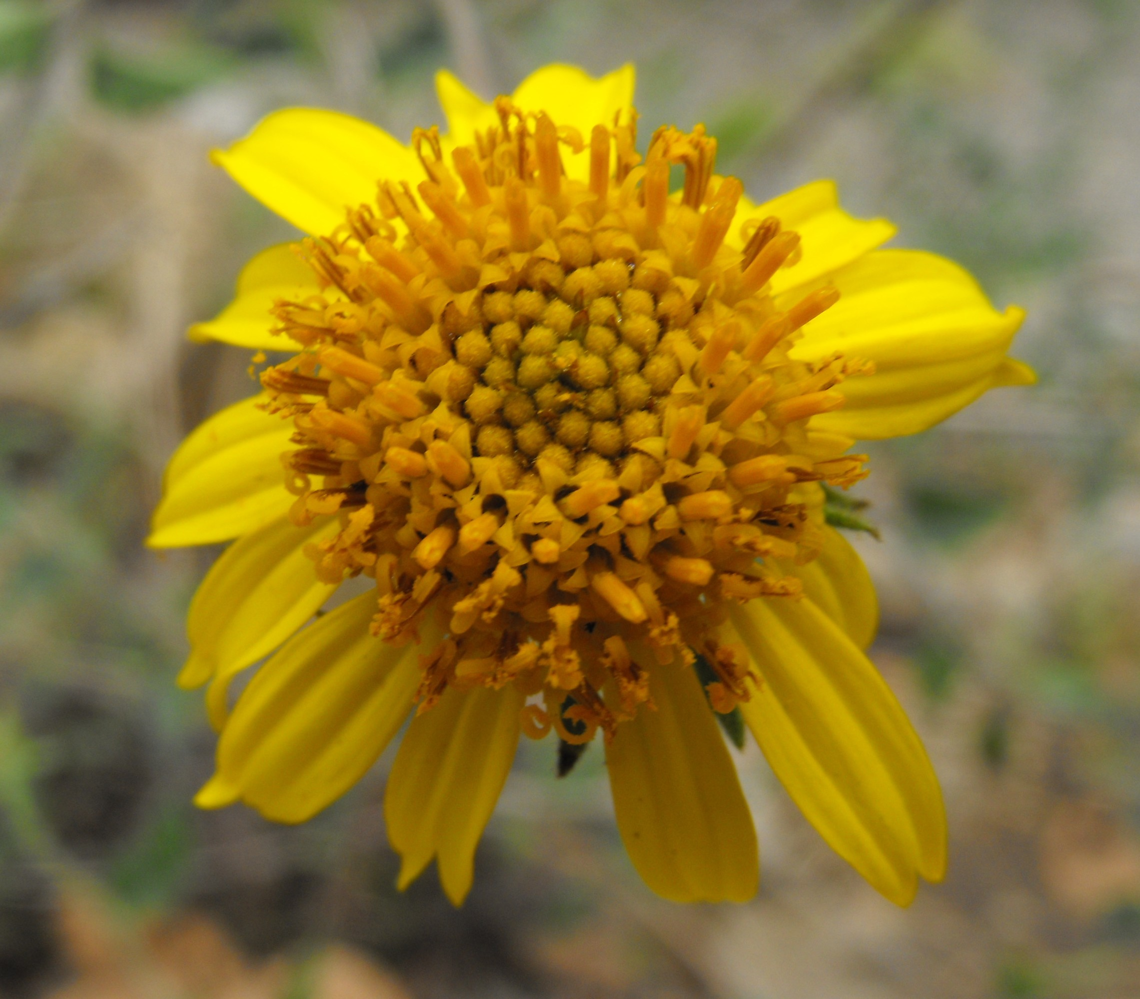 Viguiera parishii at Rancho Santa Ana Botanic Garden in Claremont, California, USA. Identified by sign.